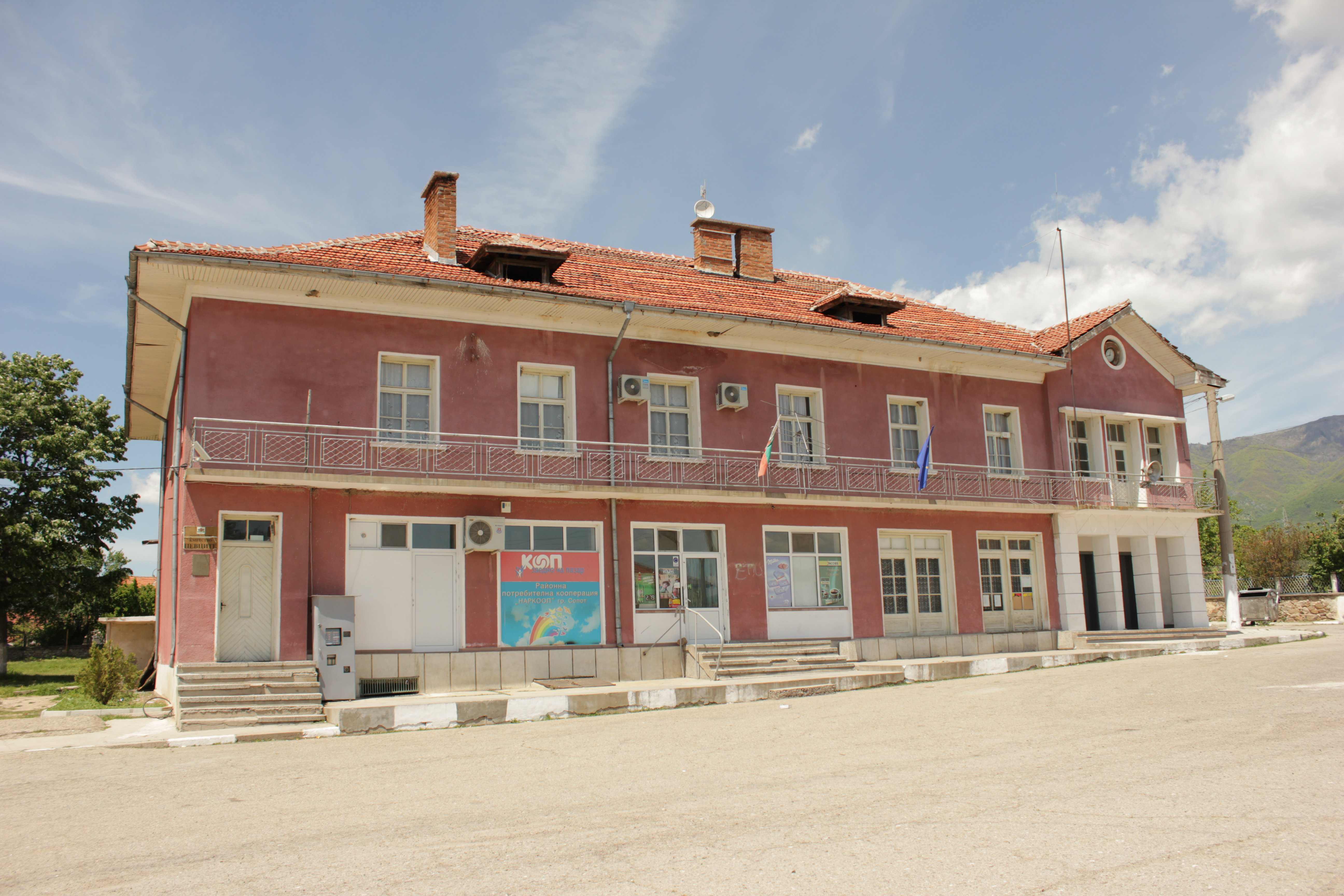 Municipality office in Pevtsite, Plovdiv Province